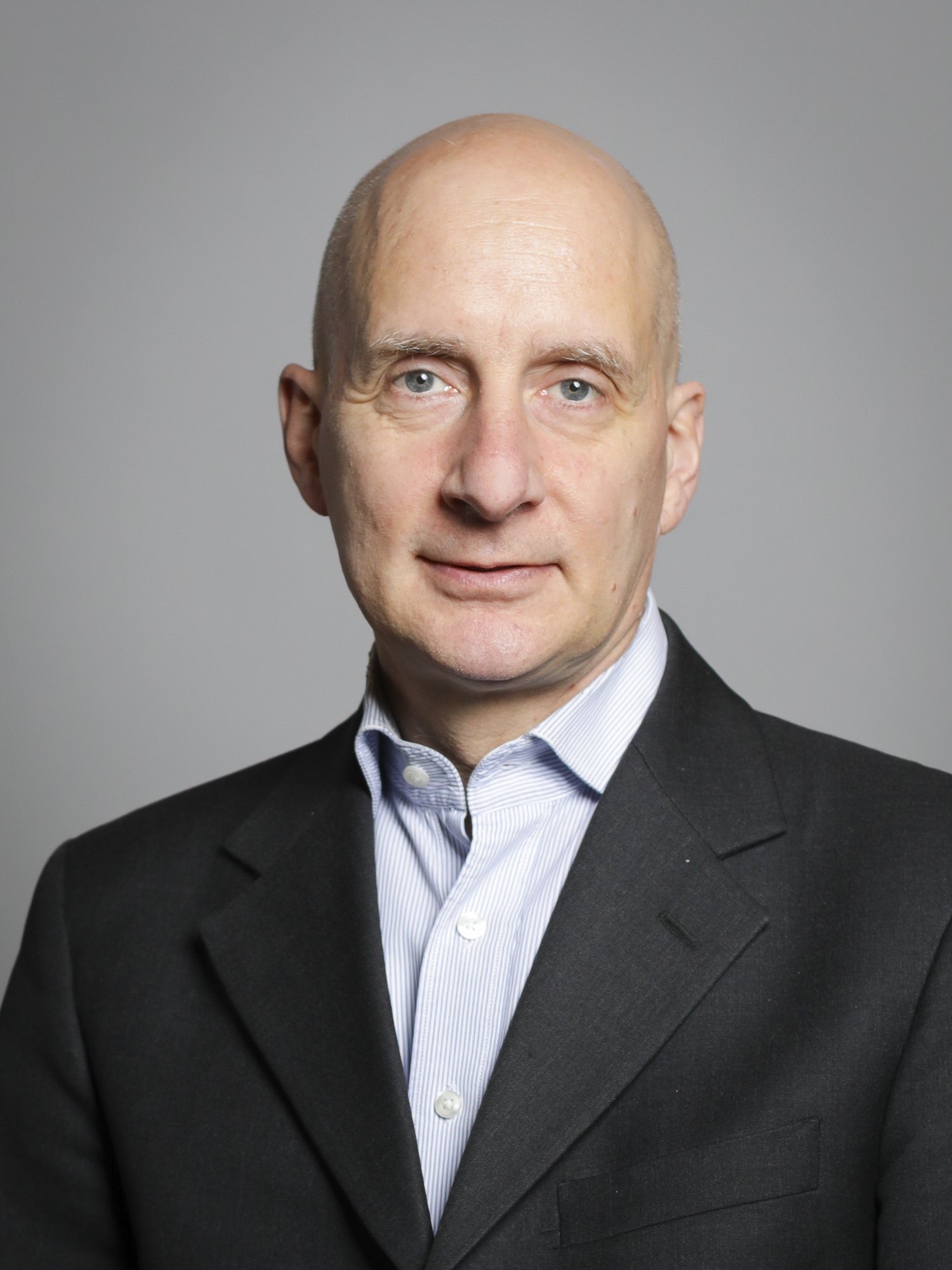 Official portrait of Lord Adonis 3×4 portrait of Lord Adonis